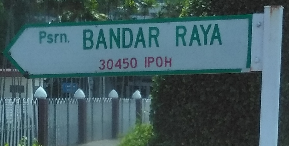 Roadsign in Ipoh city centre